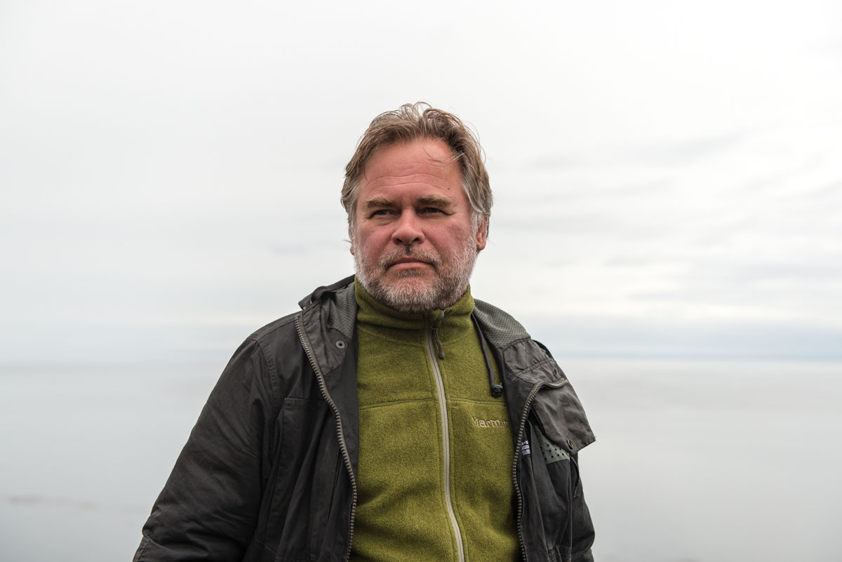 Eugene Kaspersky - Kaspersky Lab